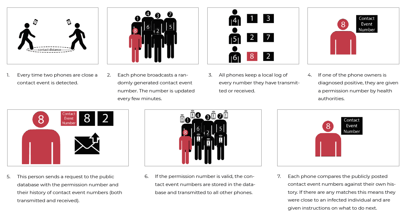 This image describes the CEN Protocol, later renamed the TCN Protocol, and published in the Covid Watch whitepaper on 20 March 2020.